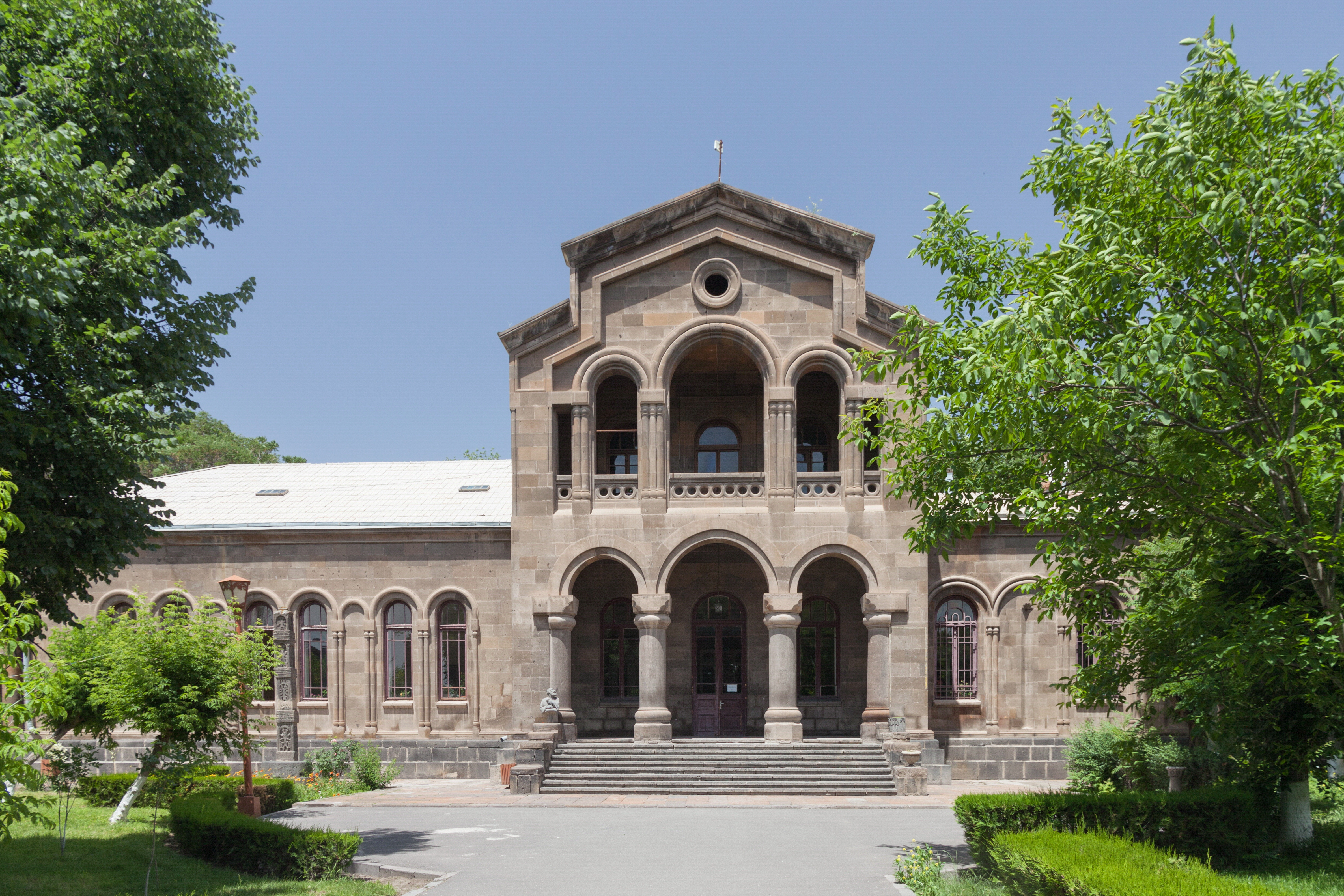 Christian Education Center of Mother See of Holy Etchmiadzin (the old seminary). Vagharshapat, Armavir Province, Armenia.